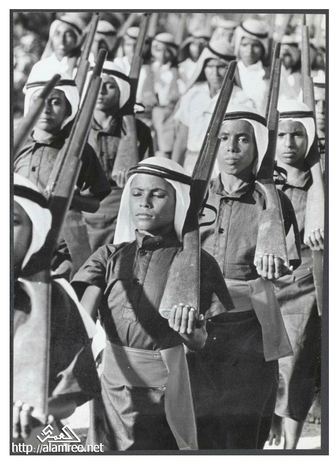 "Military Parade" at a local school in Hadhramaut, Yemen in 1950